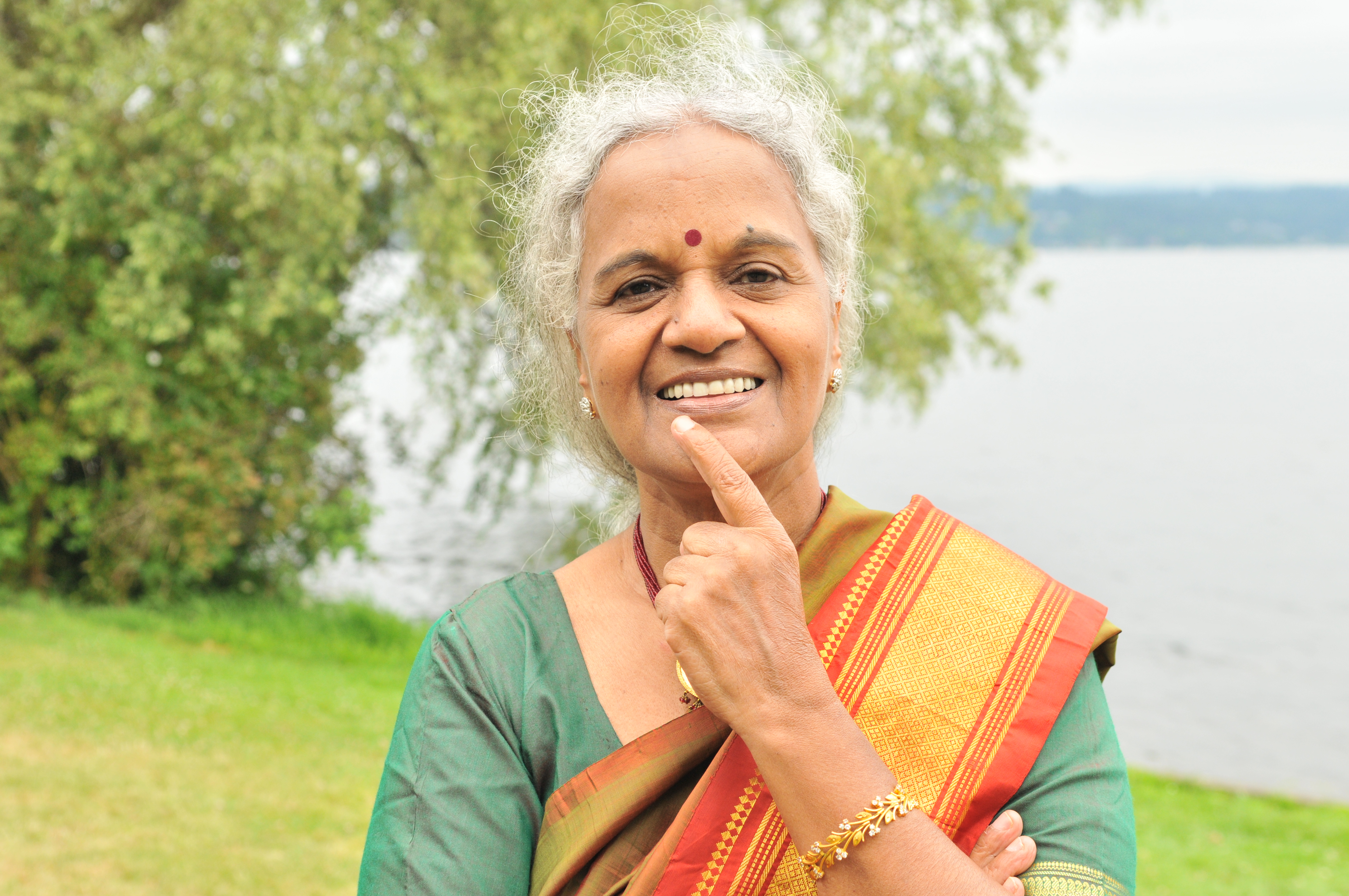 Air Marshal Padma Bandopadhyay at Colman Park in Seattle in 2012